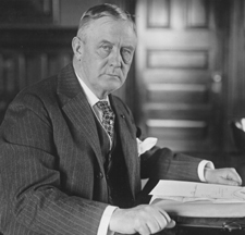 Harry Stewart New (1858–1937)